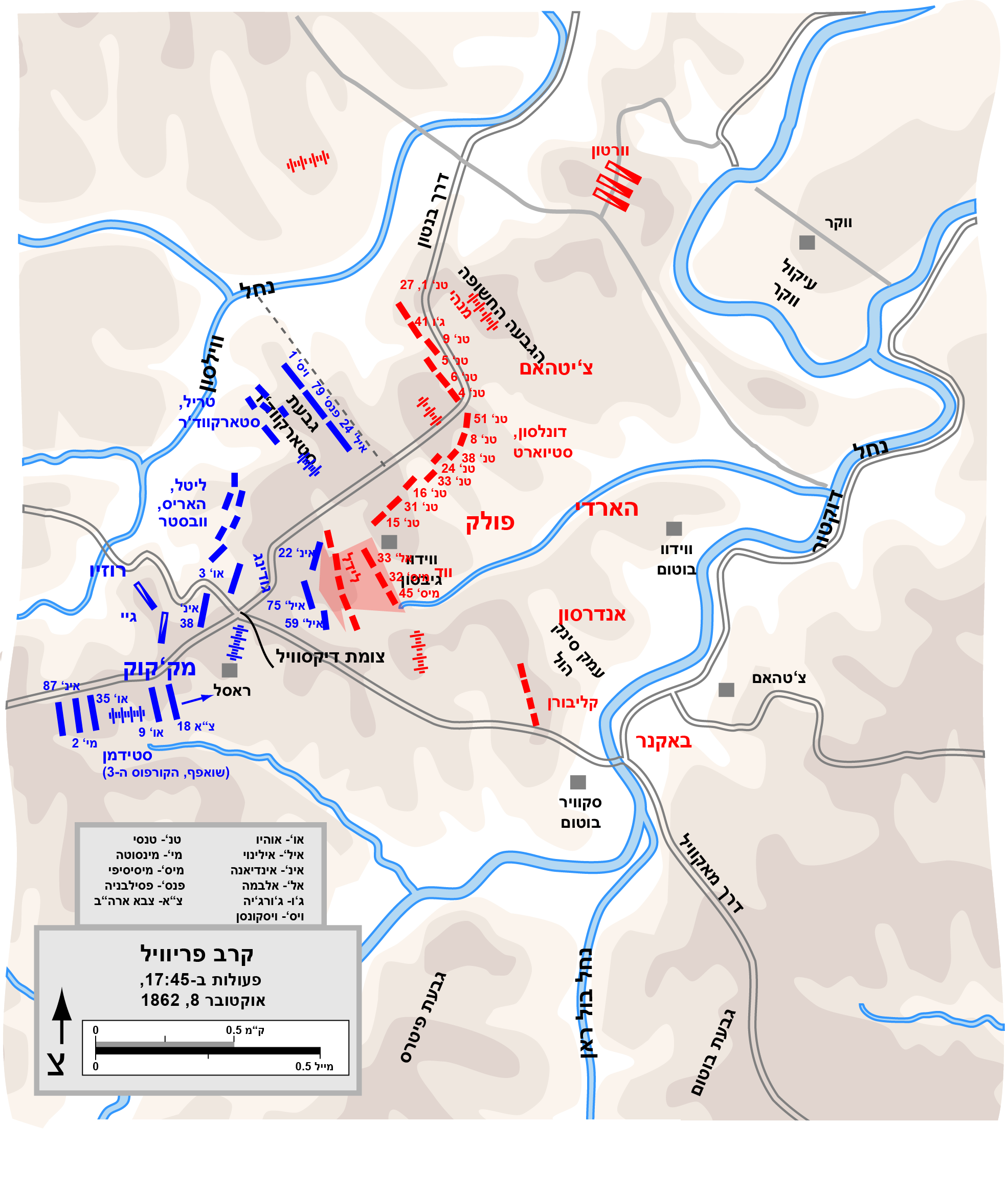 Map of the Battle of Perryville of the American Civil War. Drawn by Hal Jespersen in Adobe Illustrator CS5. Graphic source file is available at